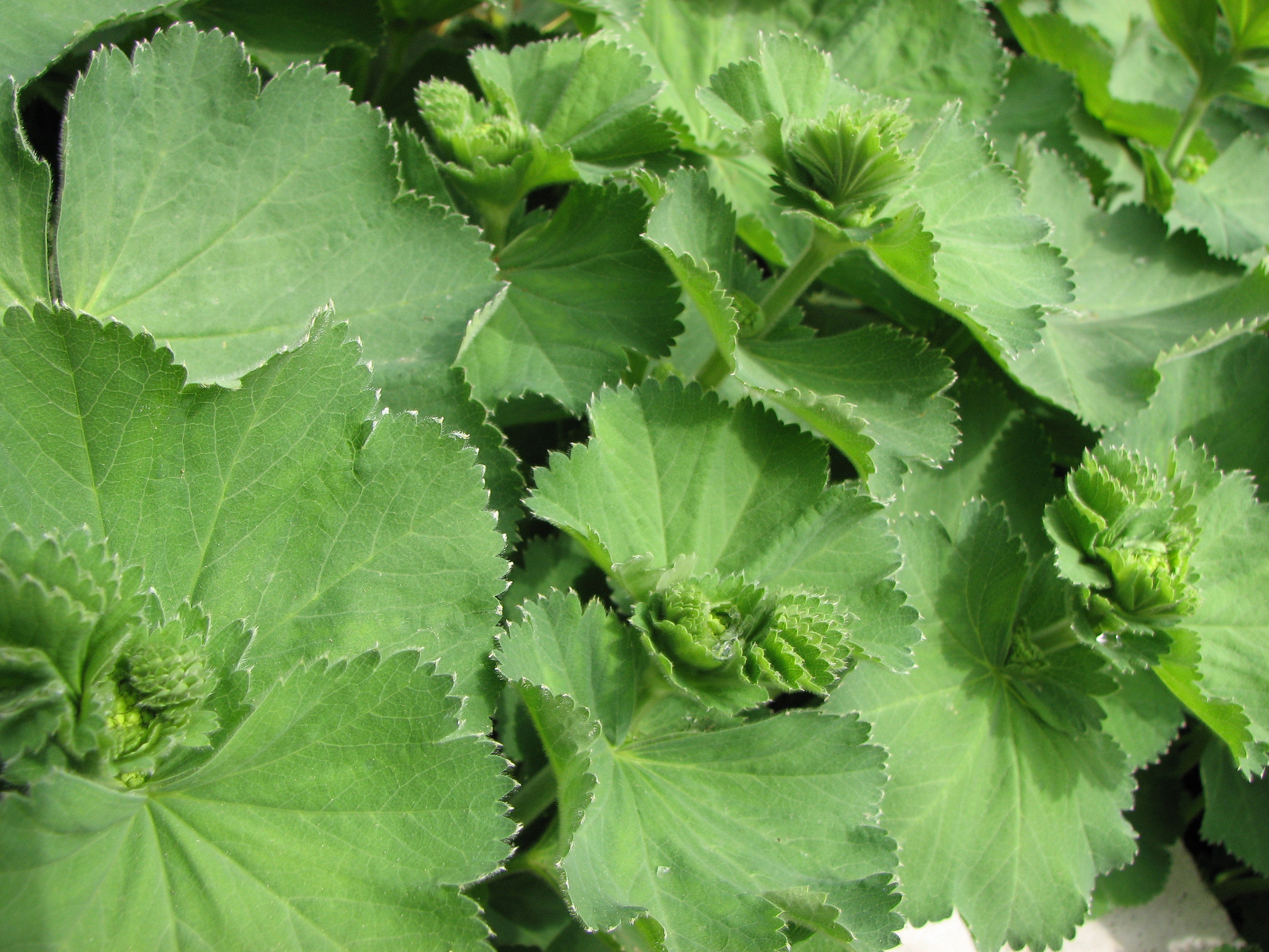 The green ruffled leaves of the Lady's Mantleen (Alchemilla vulgaris en ) plant.